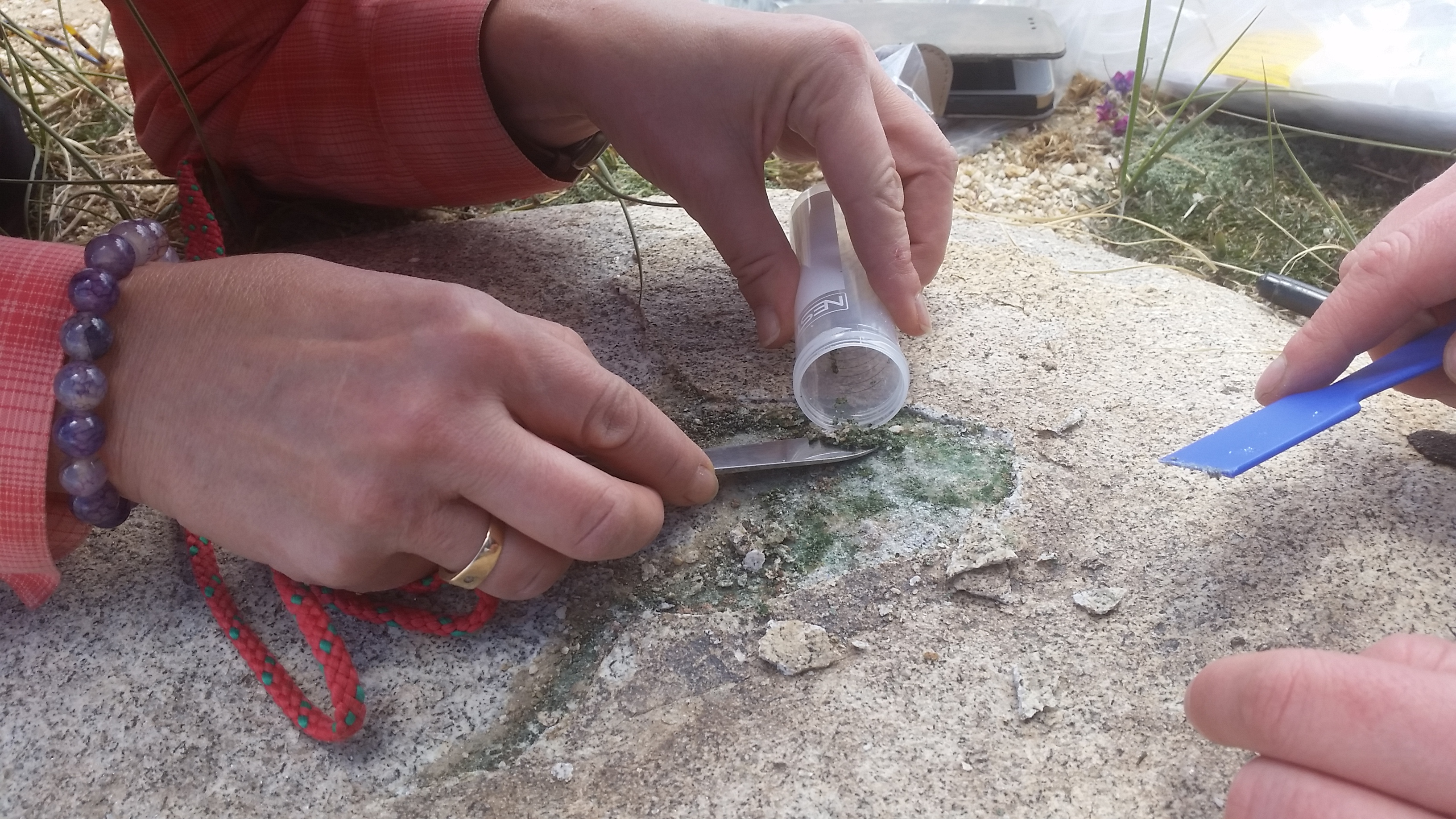 Quest for blue-green fleece. M.Sci. Natalia Khomutovska under the watchful eyes of Dr.Sci. Iwona Jasser is looking for cyanobacteria on the roof of the world. Living stones? Hidden in the rock but still unable to escape the watchful eye of a researcher. Endolithic cyanobacteria living in granite rocks.